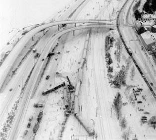 Train derailing in Jyväskylä on March 6th 1998. The locomotive turned on its side on turnout, and skidding over two lanes of a highway turned on its other side and with its roof ahead bumped against a bridge pillar. The locomotive pulled along its first two coaches which turned to their arrival direction and then detached from the locomotive and turned over. The track was damaged and therefore almost all of the following coaches derailed.